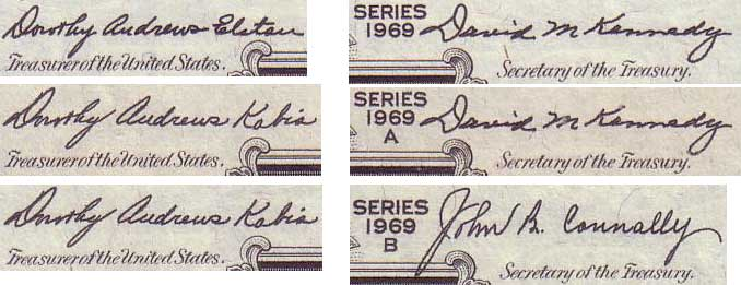 Signatures on $1 Federal Reserve Note, Series 1969 to 1969B